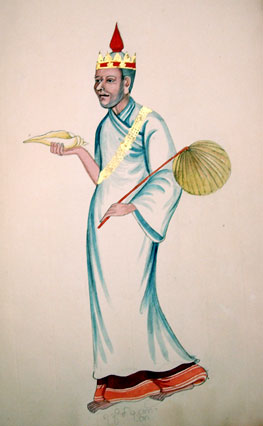 A robed Burmese Brahmin priest (Poona) of the court holding a conch shell and fan.